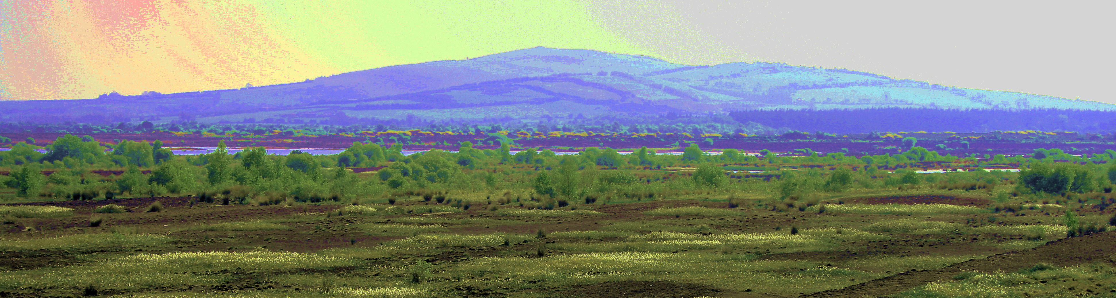 Severely enhanced vision of Croghan Hill rising from the Bog on Allen in County Offaly, Ireland